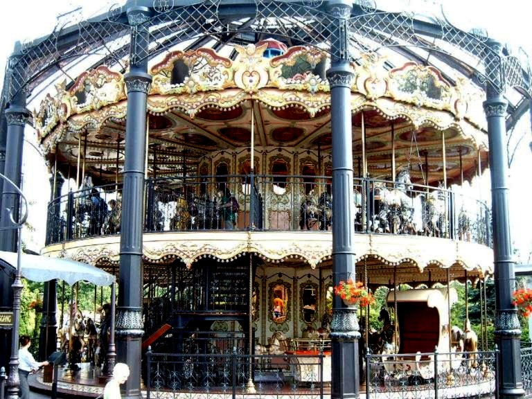 Double-decker carousel manufactured by Preston & Barbieri, Phantasialand, Berlin, Germany